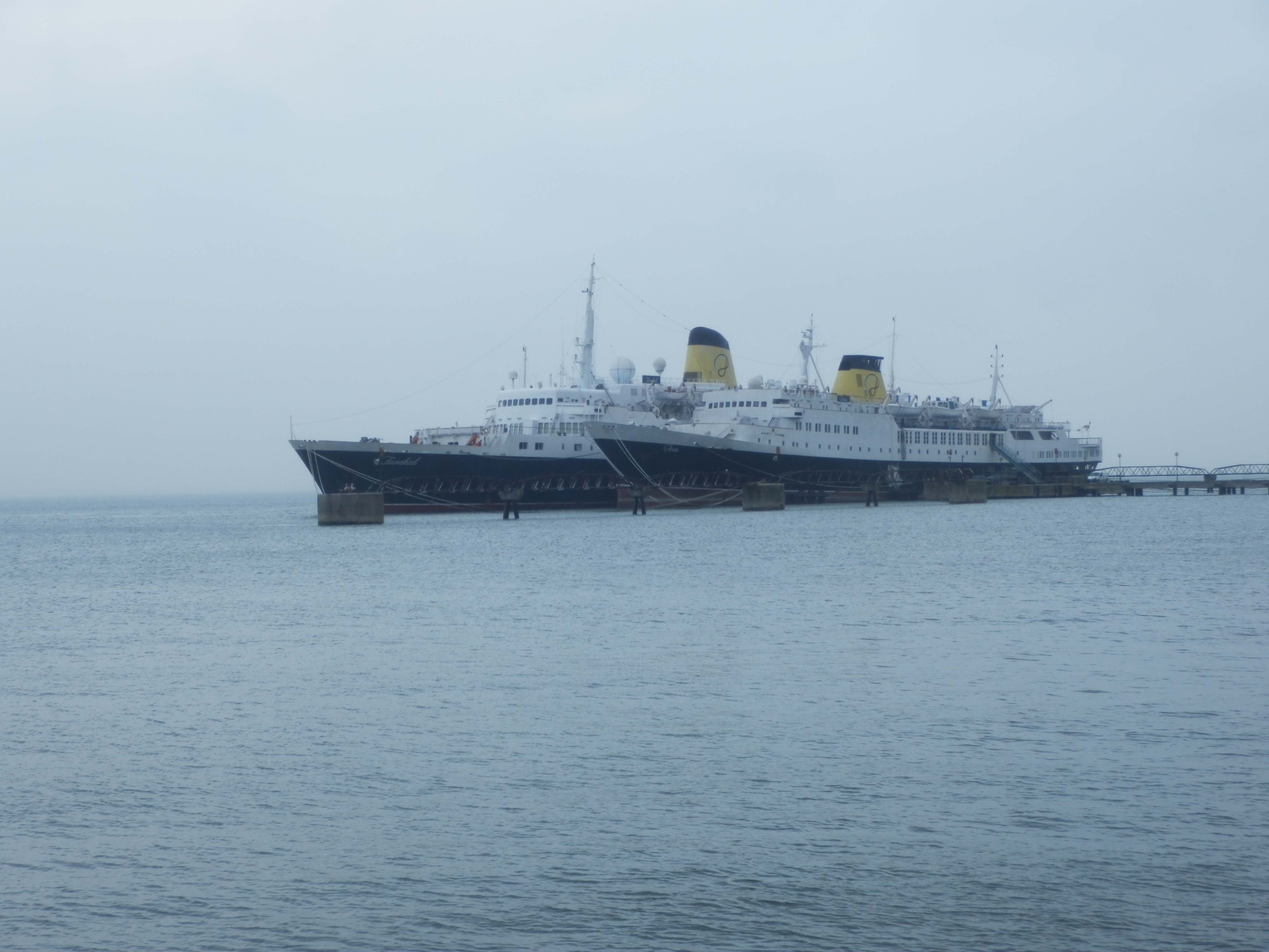 Funchal and Porto docked in Cais da Matinha